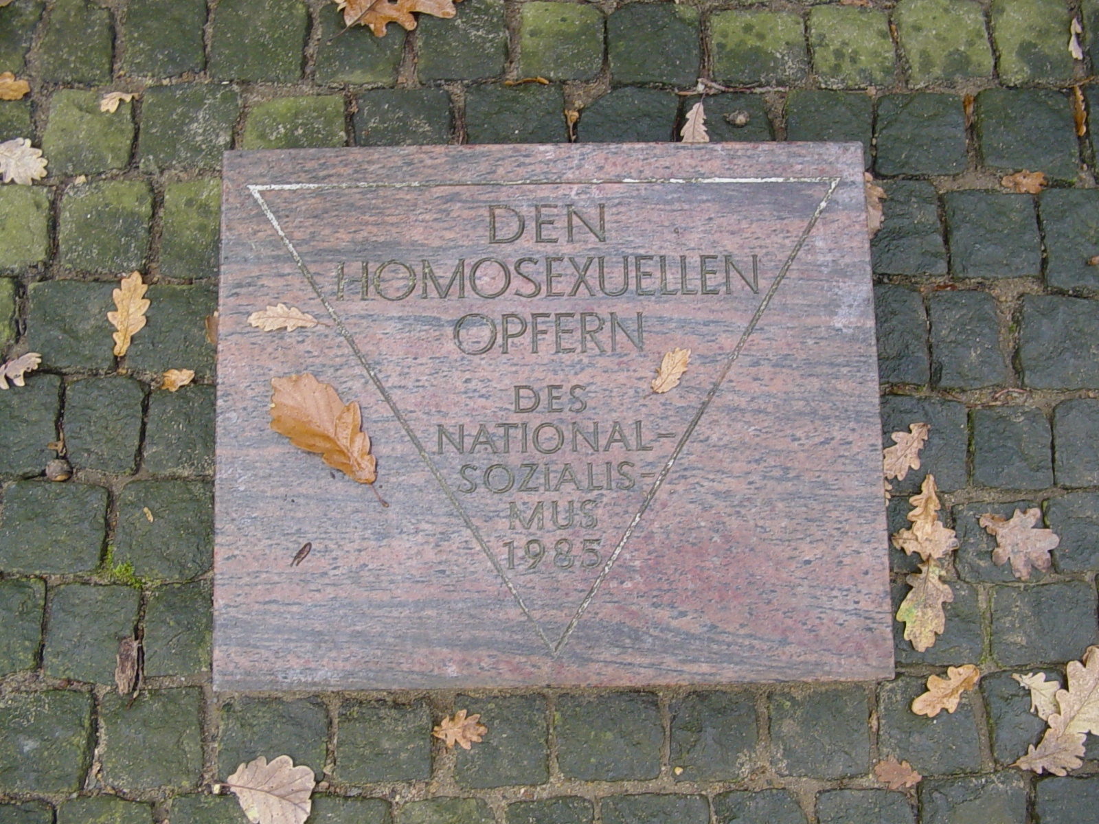 Neuengamme pink triangle